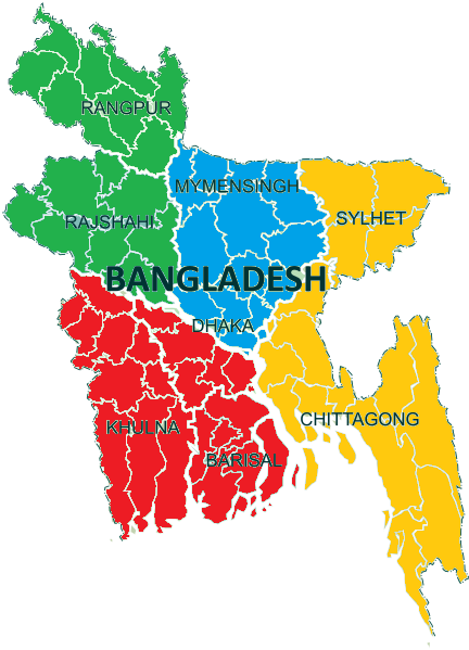 Regions of Bangladesh: Northern Bengal Southern Bengal Central Bengal Eastern Bengal